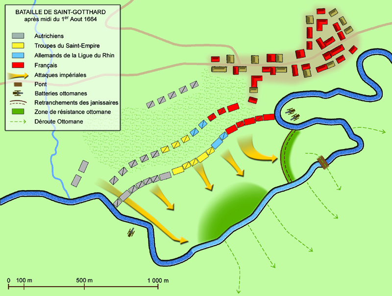 Battle plan